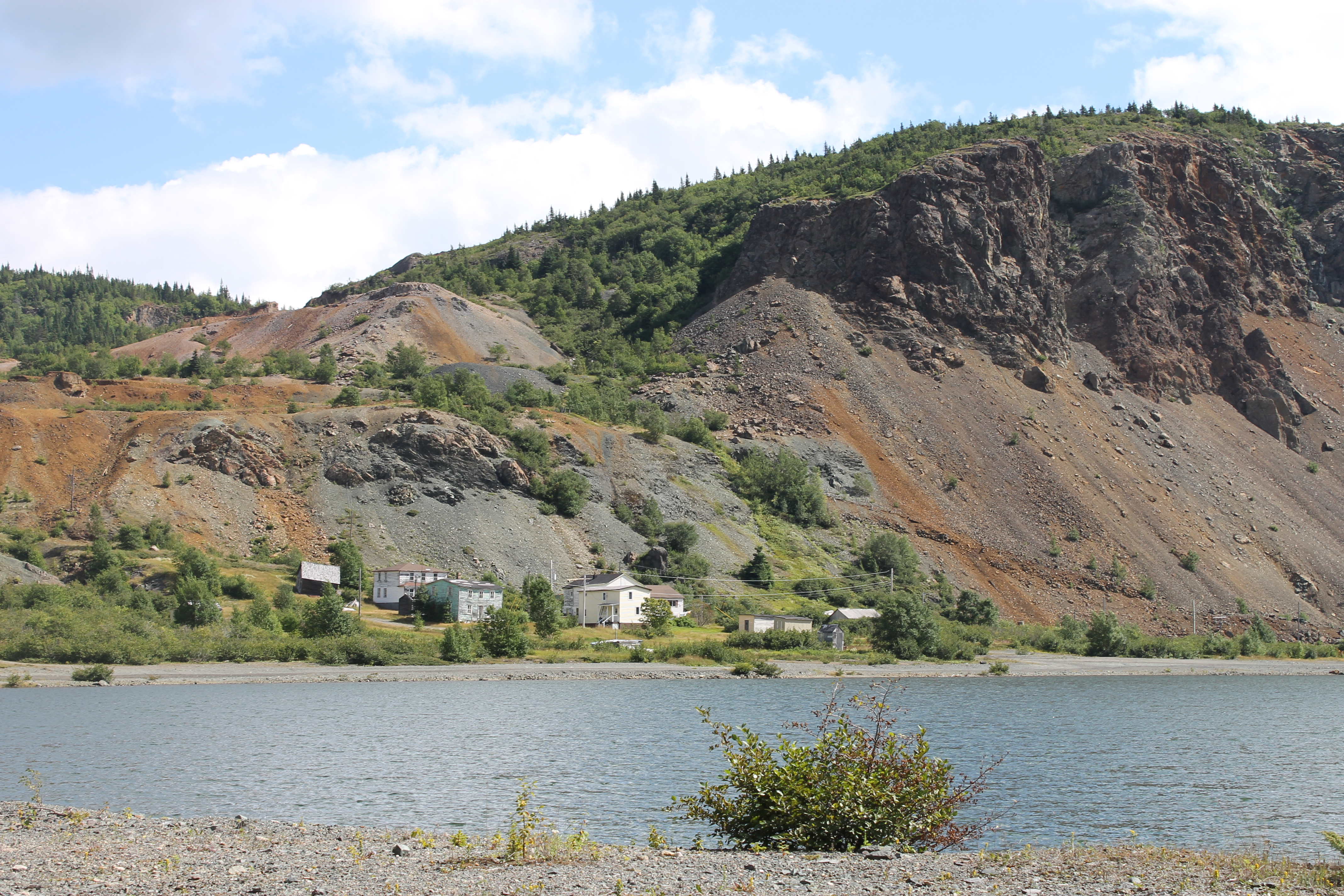 A view of Tilt Cove, Newfoundland and Labrador, Canada looking east.